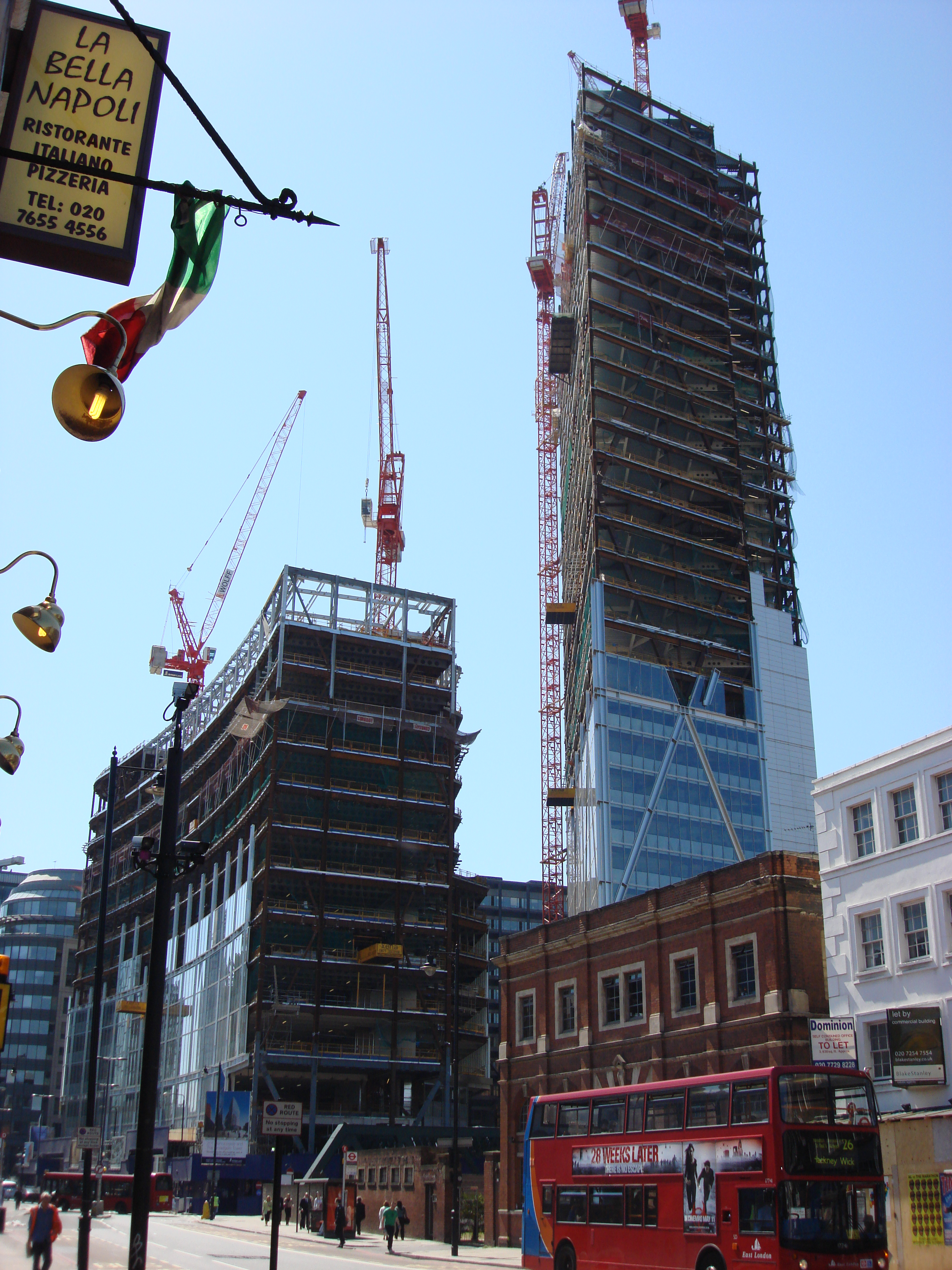 The Broadgate Tower under construction on 1/5/07